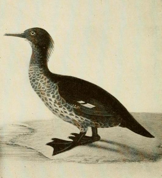 Southern Merganser from The Animals of New Zealand An account of the Dominion's Air-breathing vertebrates (1909) By Captain F. W. HUTTON, F.E.S. AND JAMES DRUMMOND, F.L.S., F.Z.S.